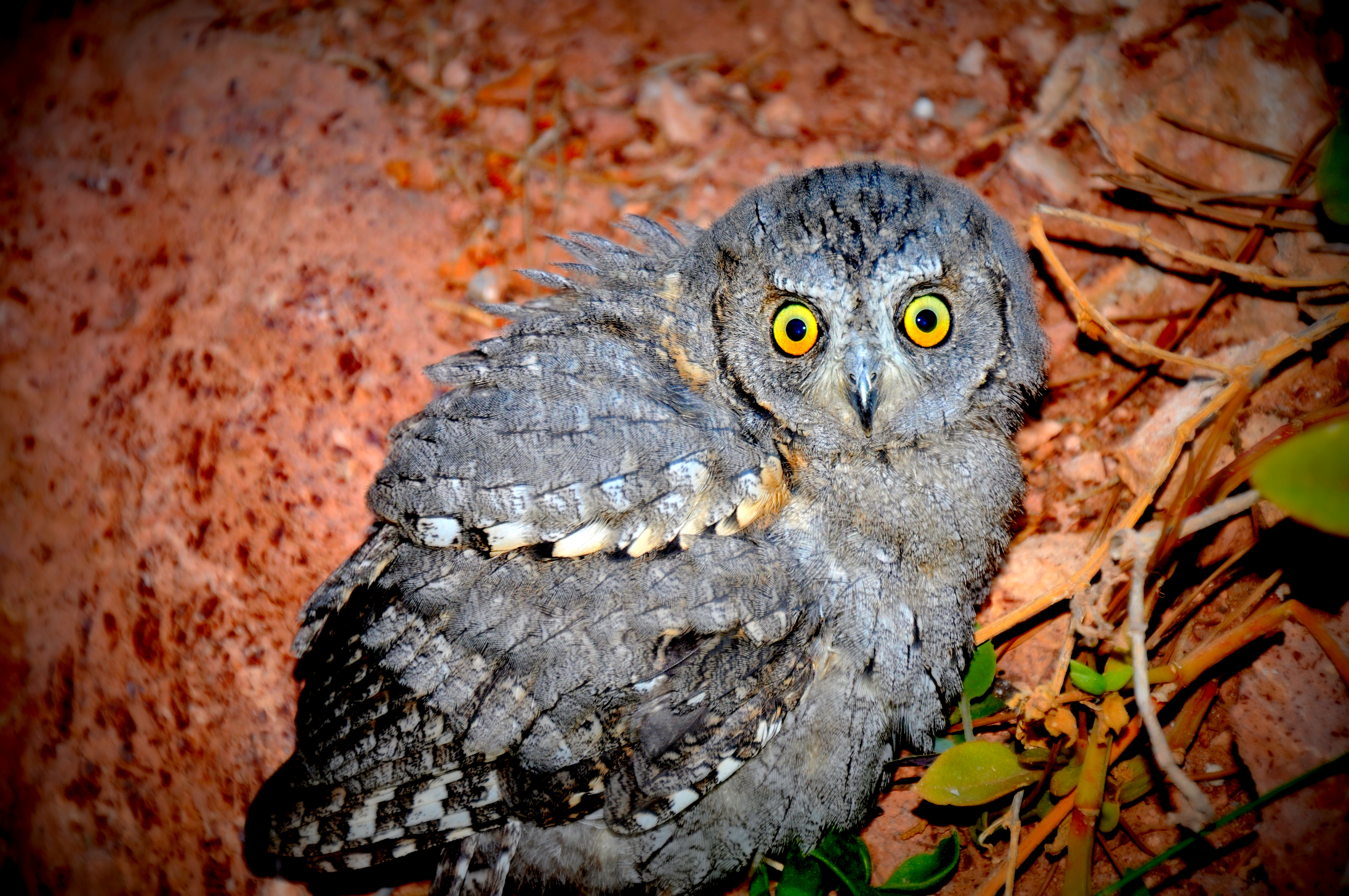 first days out of nest